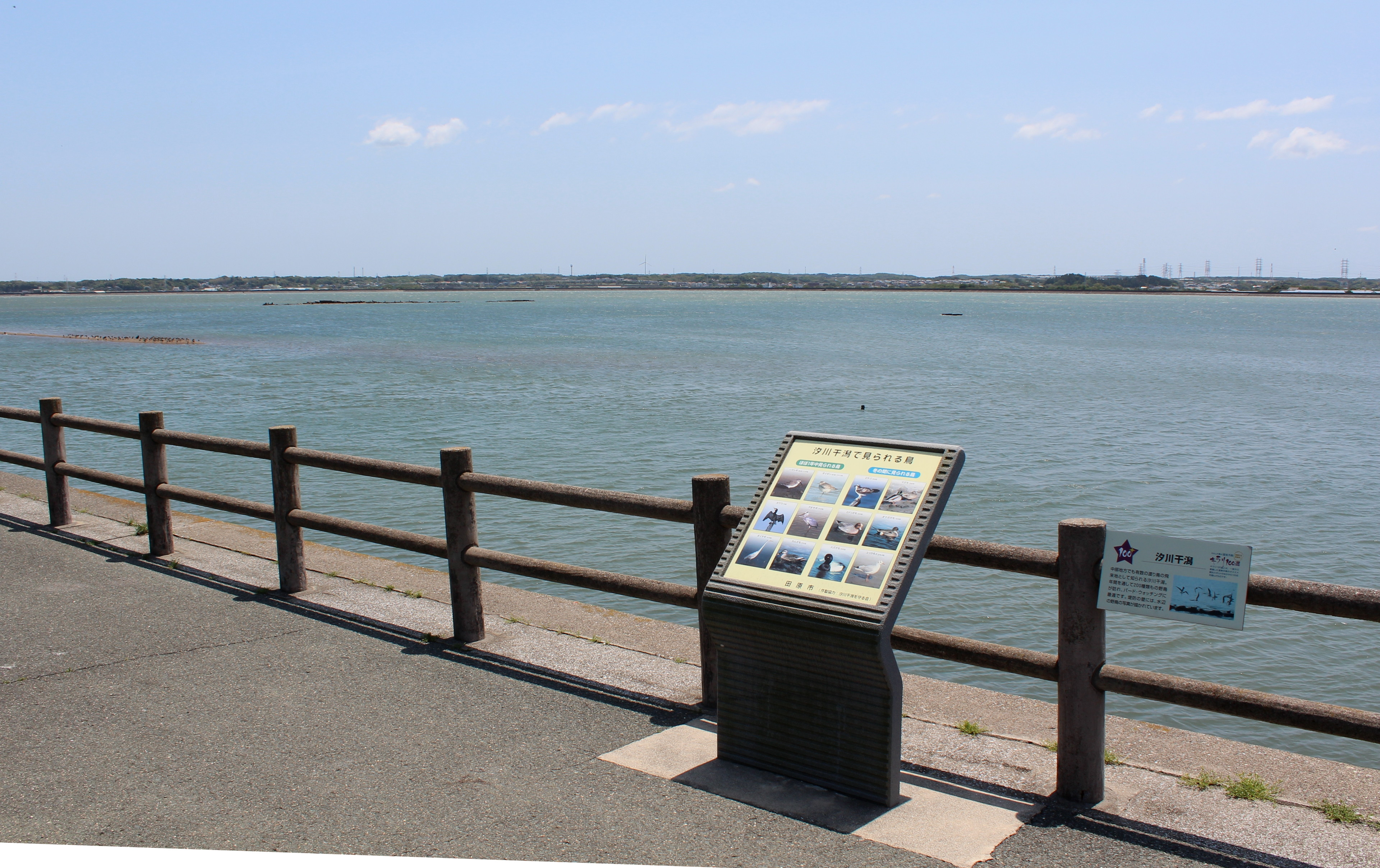 Shiokawa Higata from Midorigahama Park